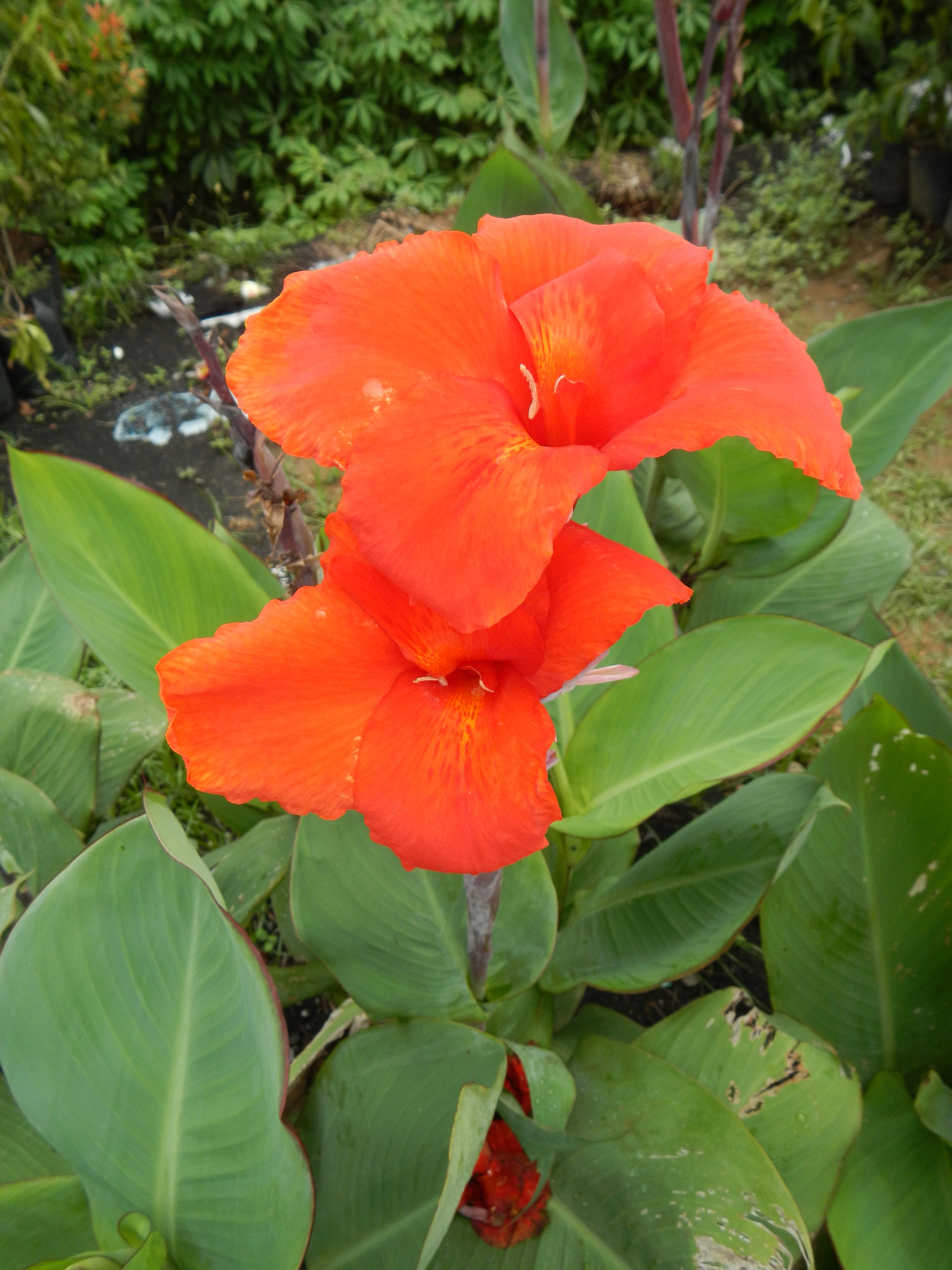 Barangay Santa Rita, Guiguinto Bulacan (along NLEx exit and entrance - road-signs, beside the for sale Concret Hollow block machines Concrete masonry unit CMU; Canna indica, Centipede Chilopoda in Barangay Santa Cruz, Guiguinto, Bulacan NLEx KM 37 Interchange.